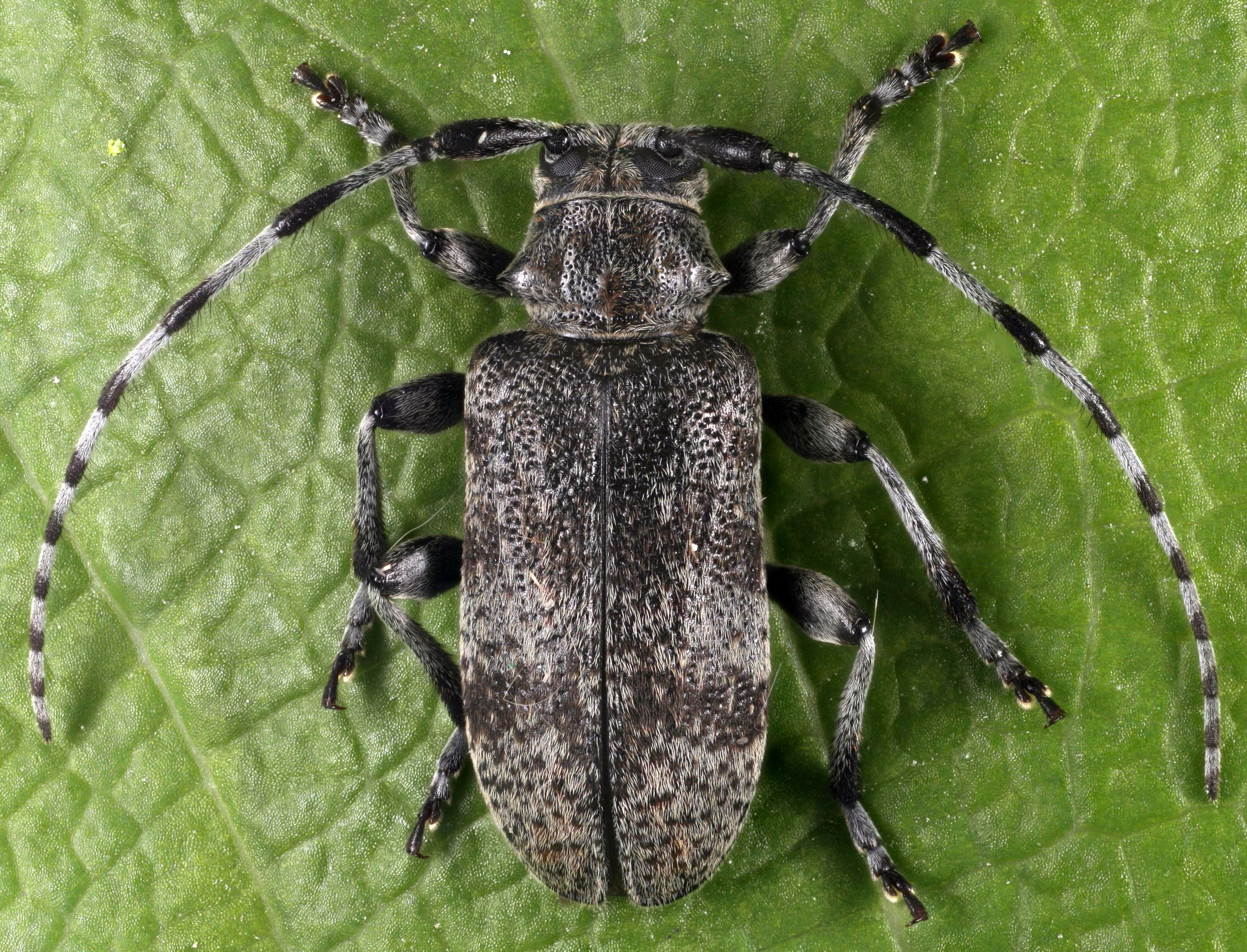 Male Longhorn beetle Oplosia cinerea